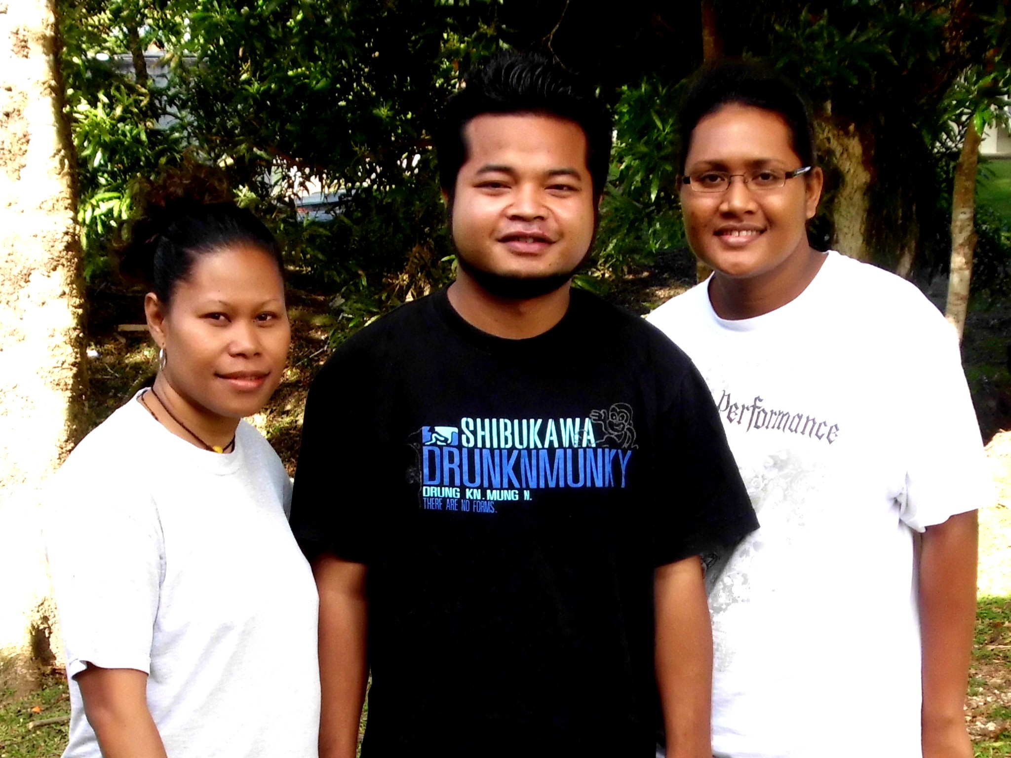 Australian Regional Development Scholarship recipients Bertha from the Federated States of Micronesia, Rendy from the Marshall Islands, and Joren from Palau are studying at the University of the South Pacific, Laucala Campus, in Suva. Australian Regional Development Scholarships provide opportunities to people from Pacific countries to study at selected education institutions in the region. Photo: AusAID For a high resolution copy of this photo, please